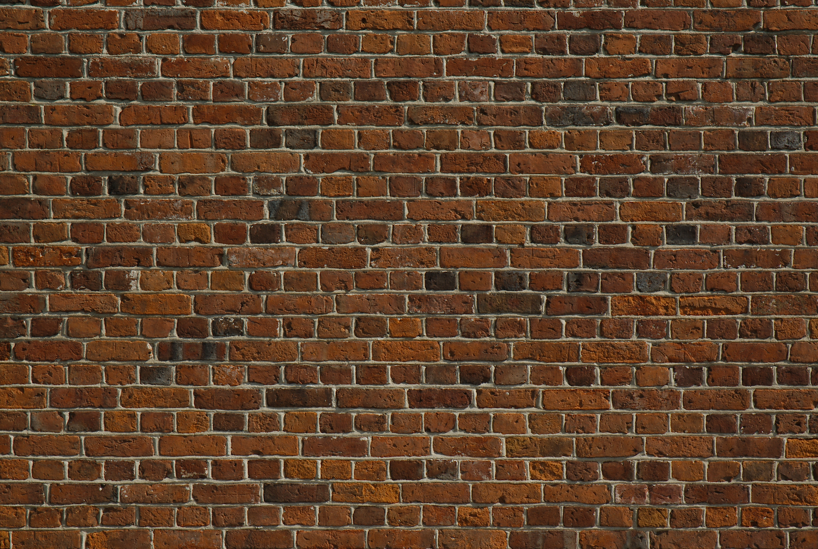 End gable of large bricks